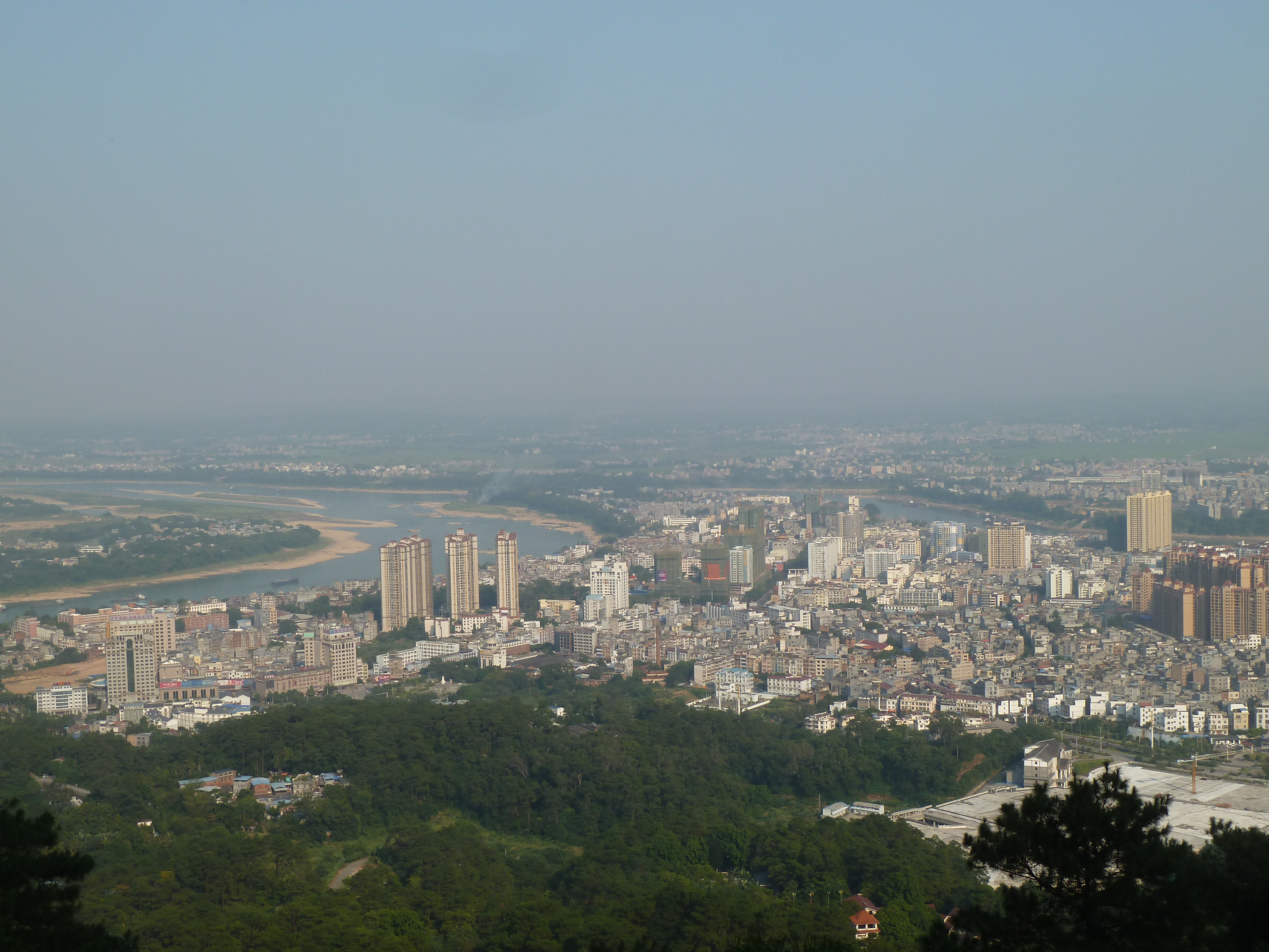 This photo was taken from Guiping's West Mountain (Xishan).